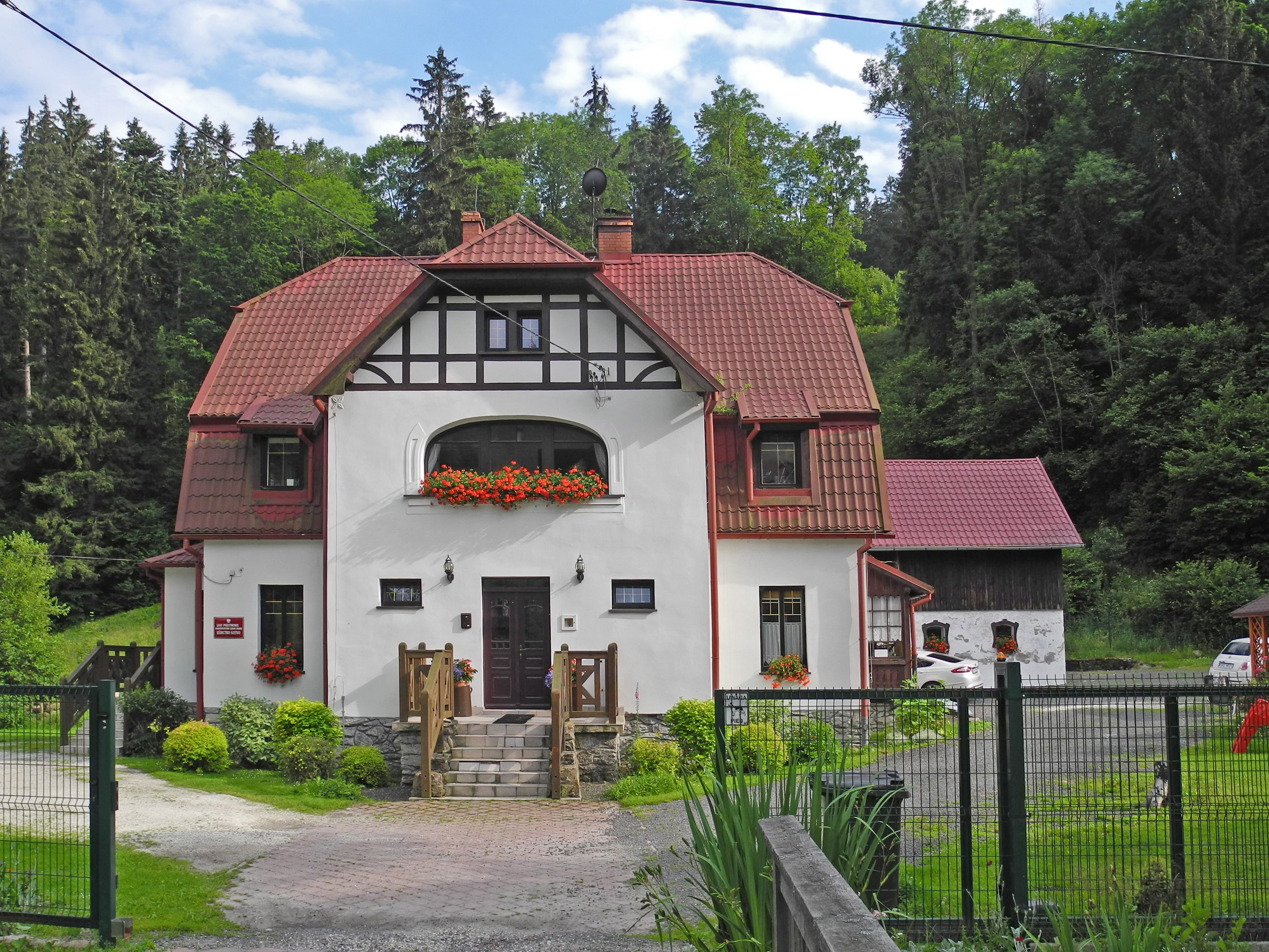 Forester's lodge in Kletno, Poland